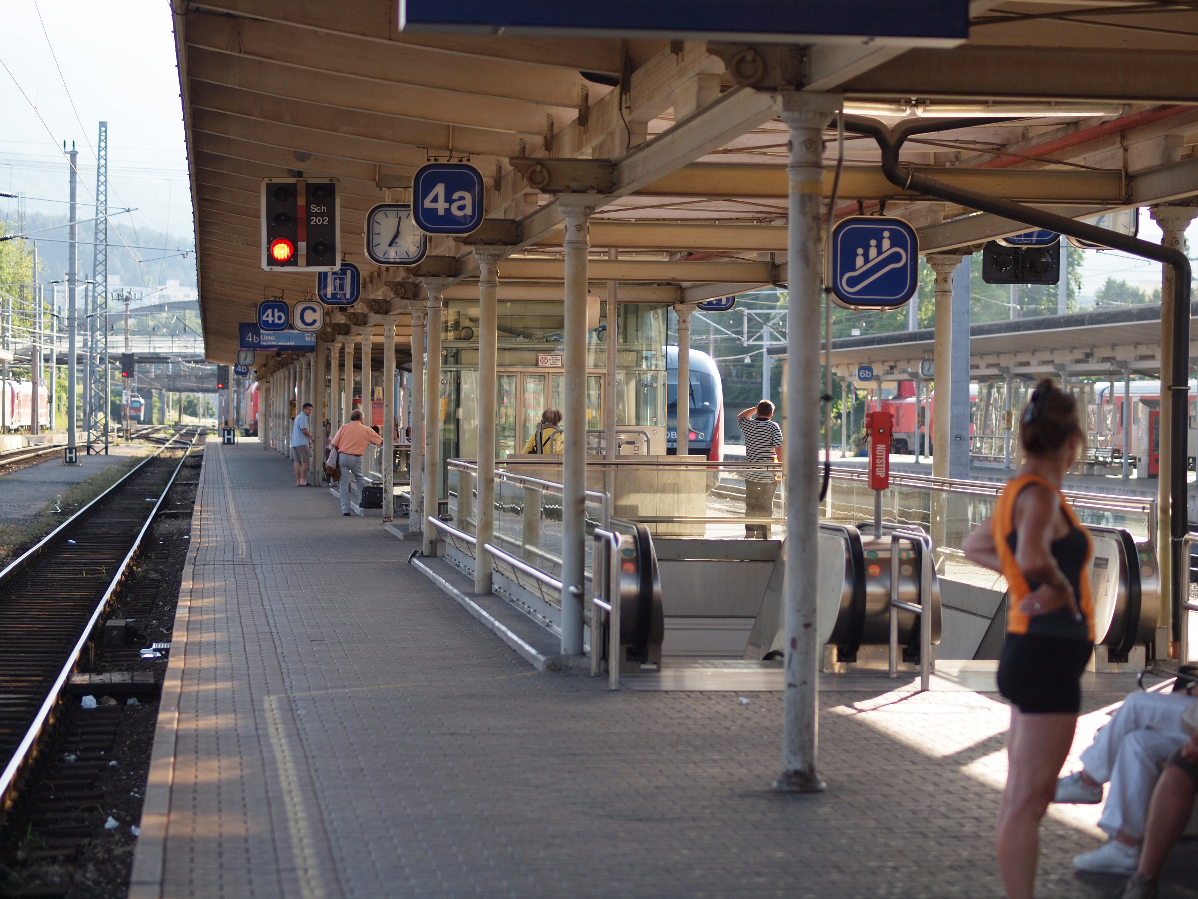 Villach main railway station